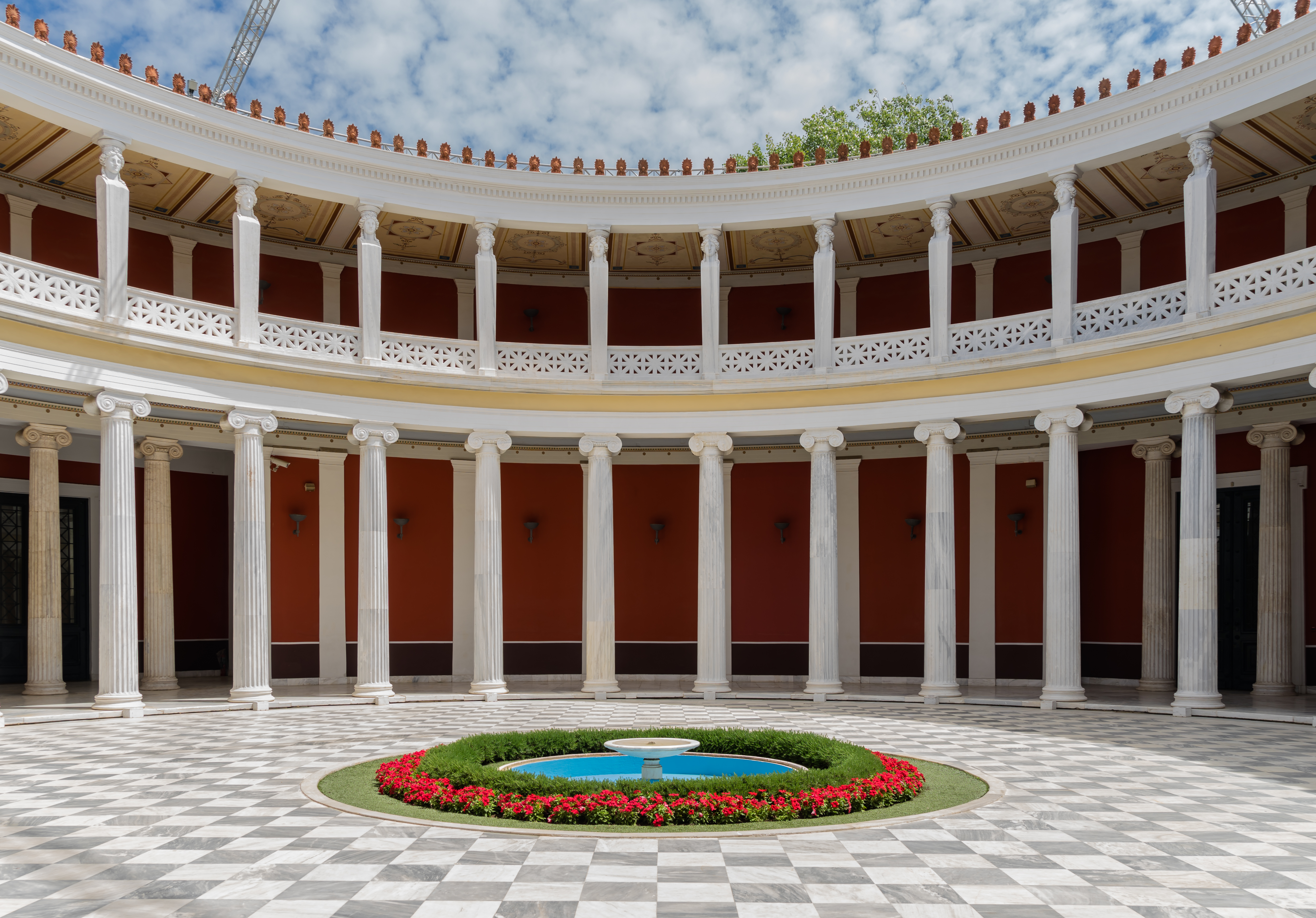 Courtyard of the Zappeion, Athens, Greece.